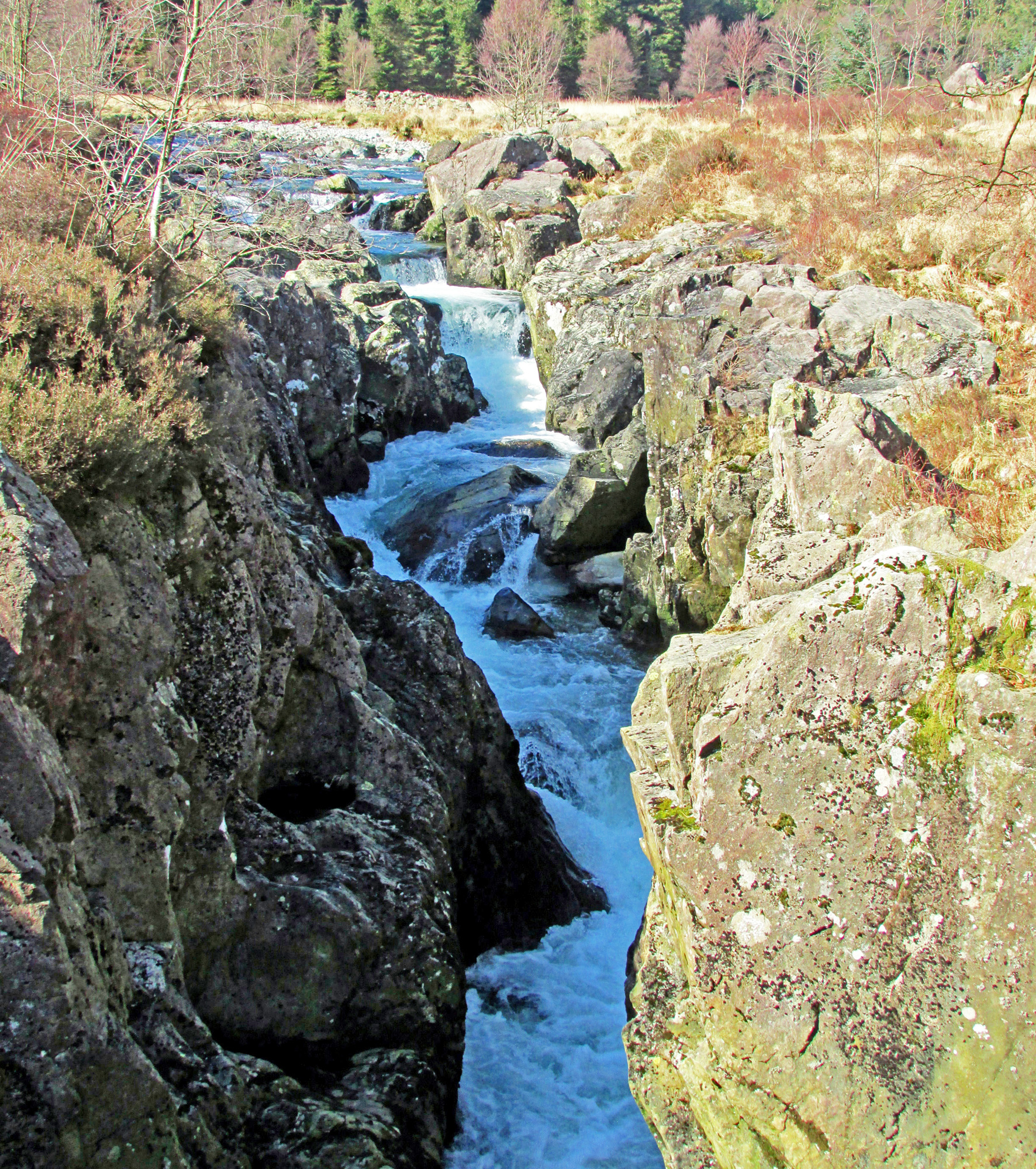 River Duddon at Troutal Gorge Cumbria in 2017